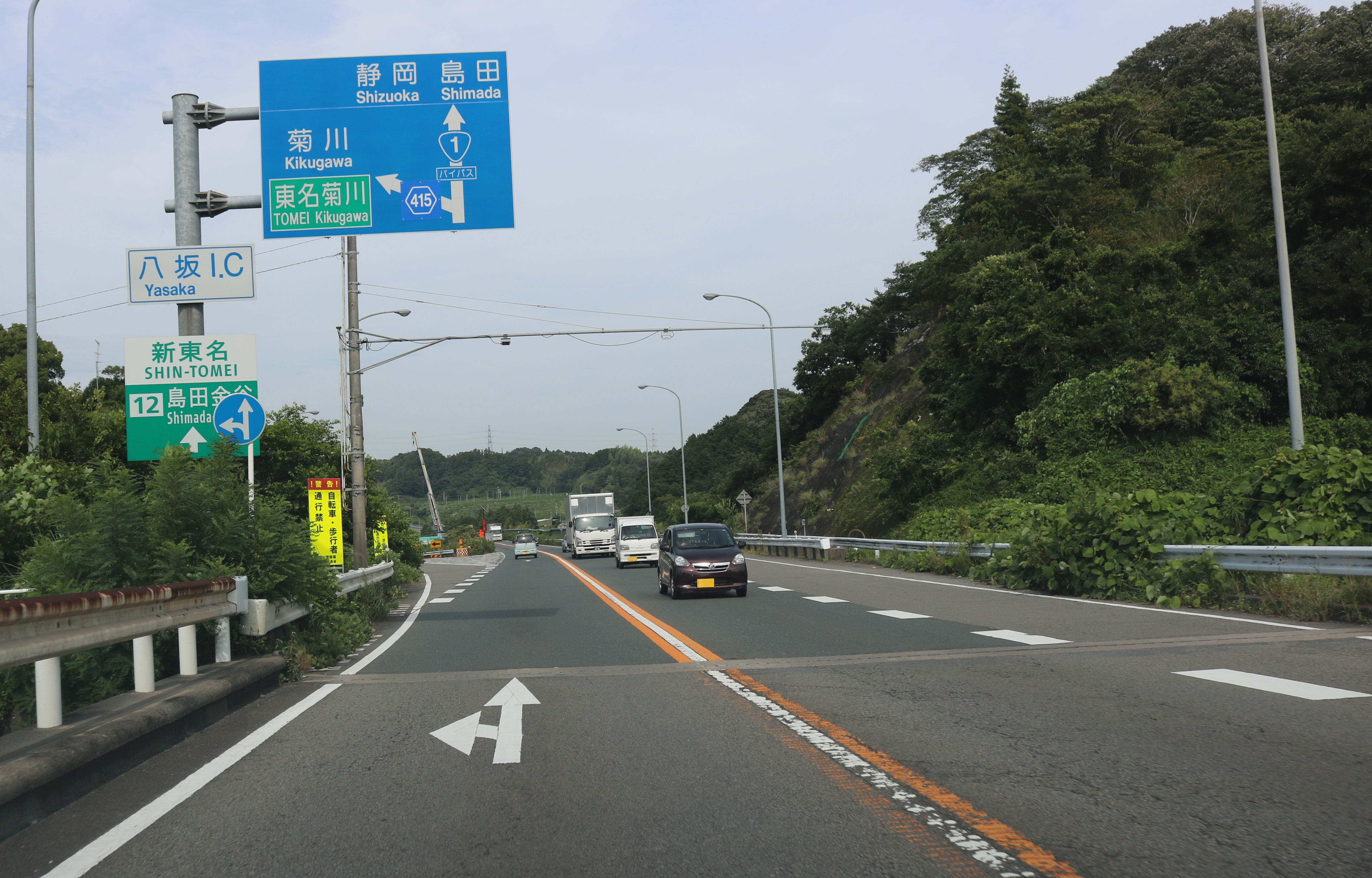 Yasaka Interchange of Kakegawa Bypass (Route 1) and Shizuoka Prefectural Road Route 415 in Yasaka, Kakegawa, Shizuoka Prefecture, Japan.